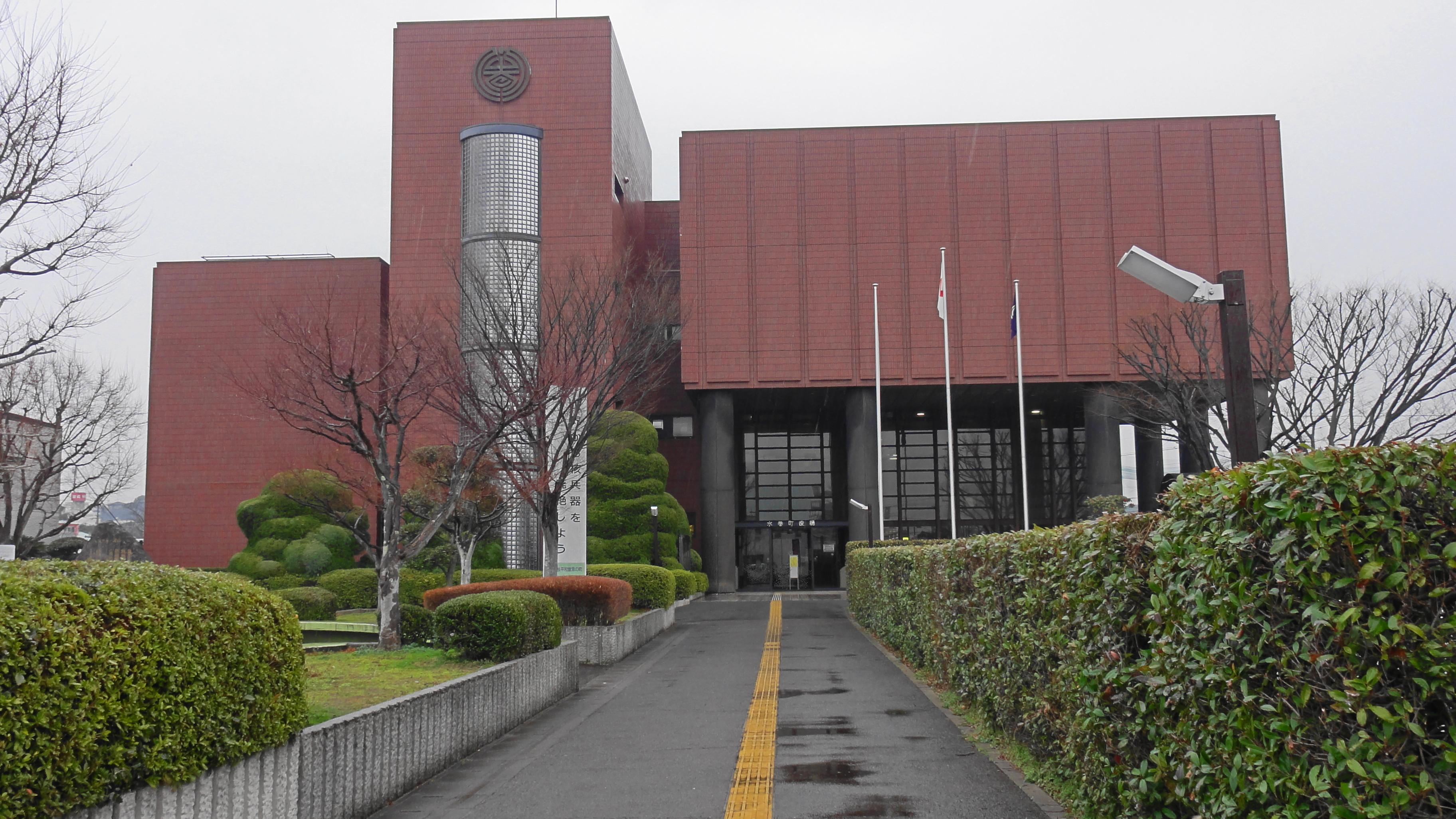 Mizumaki town office,Fukuoka prefecture,Japan